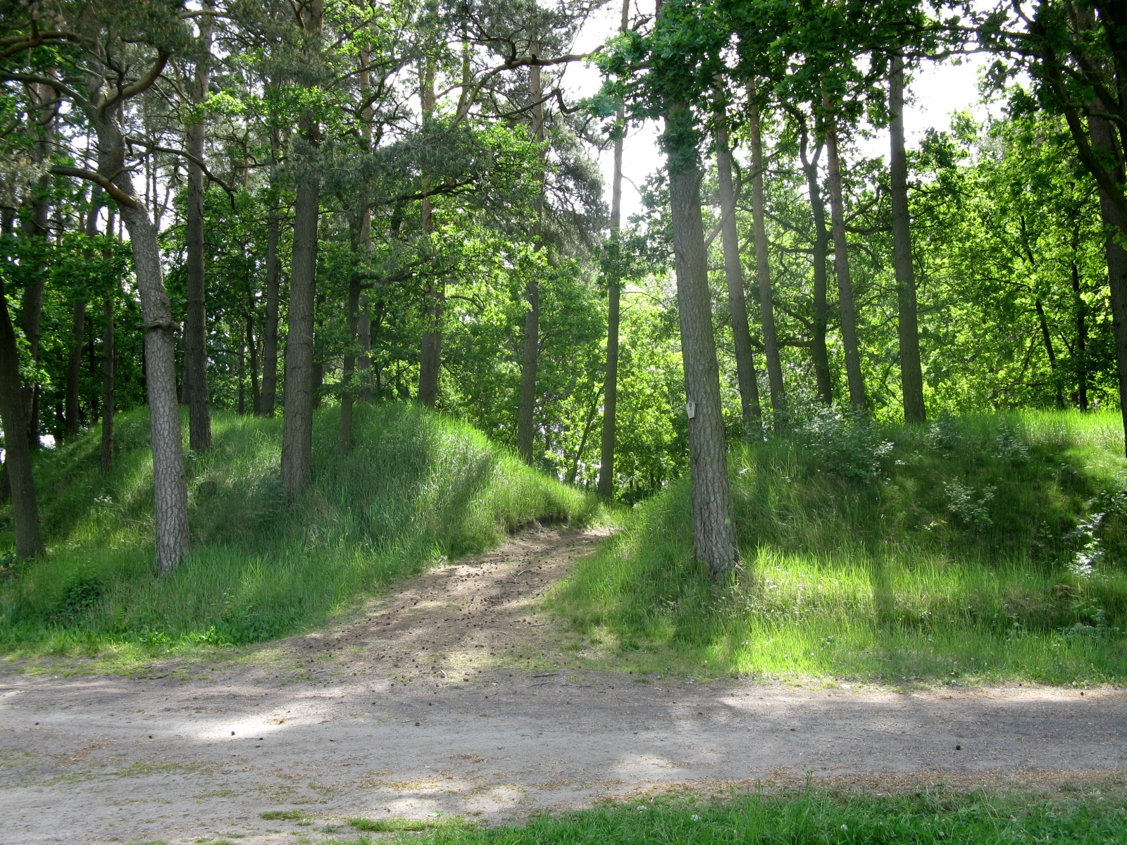 Slavic hill fort near Menkendorf, district Ludwigslust-Parchim, Mecklenburg-Vorpommern, Germany